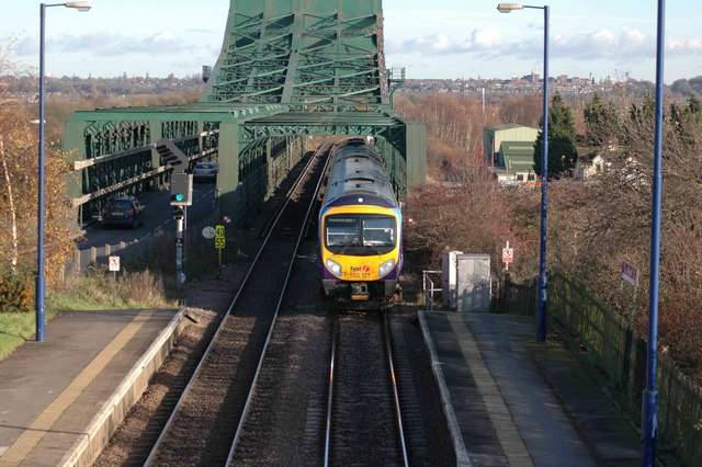 Road and rail bridge across the Trent. A Cleethorpes to Manchester Airport passenger train crosses the Trent. This bridge has the road alongside it so one span is for the railway the other the road. The photo was taken from Althorpe station footbridge, in the background is Scunthorpe on the hill.